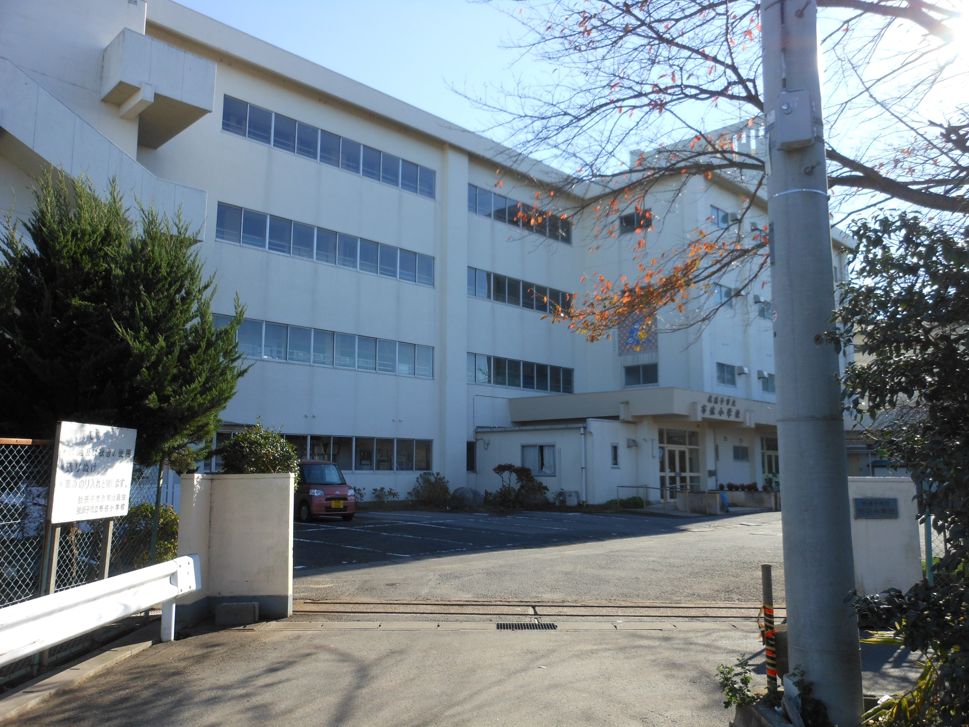 This is the school gate of the Abiko city Fusa Elementary School, which is located in Abiko, Chiba, Japan.